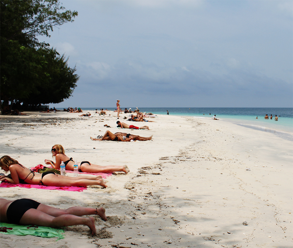 Beach Situation at Gili Trawangan, Lombok, Indonesia, in year of 2011